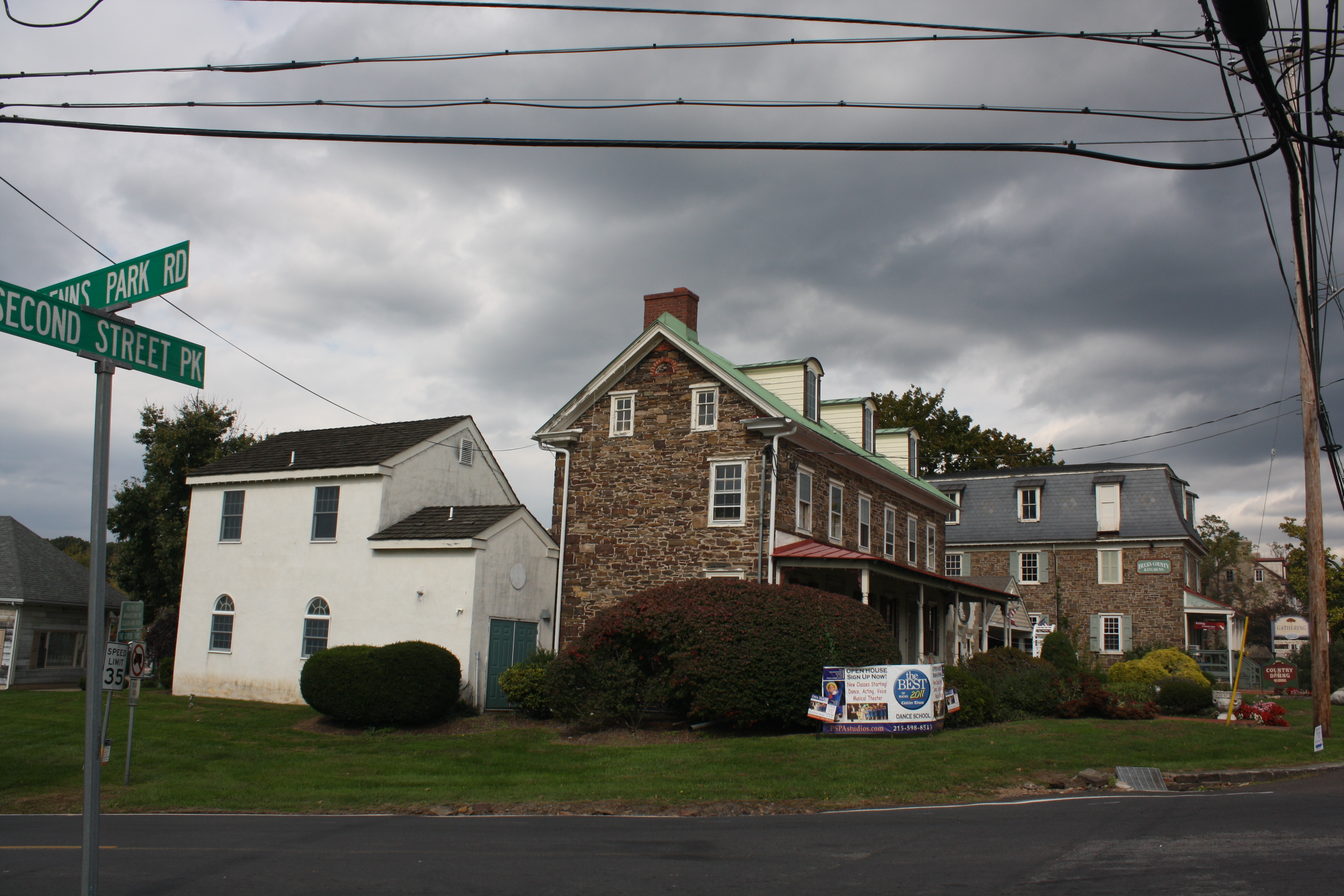 Penn's Park General Store Complex, also known as the Gaines Property, is a historic commercial complex located at Penn's Park, Wrightstown Township, Bucks County, Pennsylvania. View from Penns Park Rd. Object location40° 15′ 56.88″ N, 74° 59′ 56.04″ W